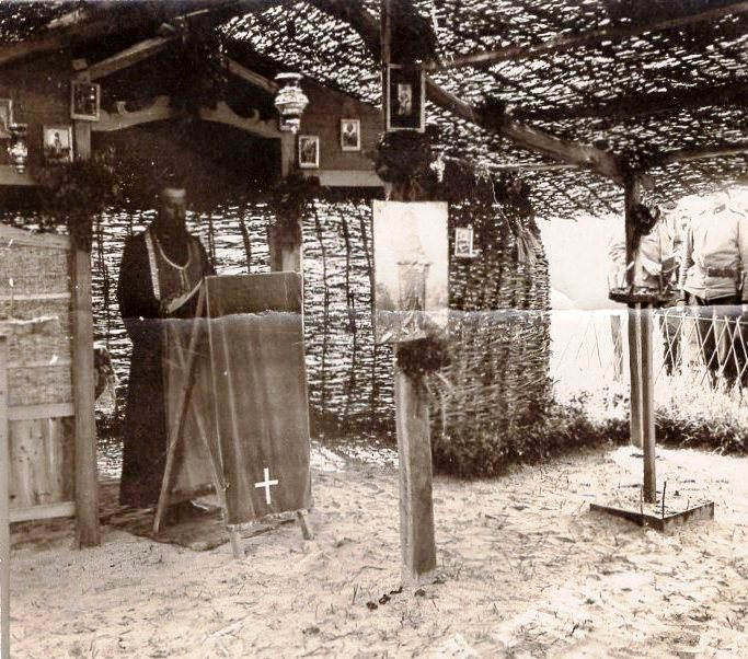 Russian field church in Pustec. This media file is produced by Wikipedian in Residence in Category:Wikipedian in Residence at DARM in 2017.